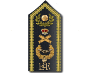 Rank Shoulder Board of Marshal of the RAF